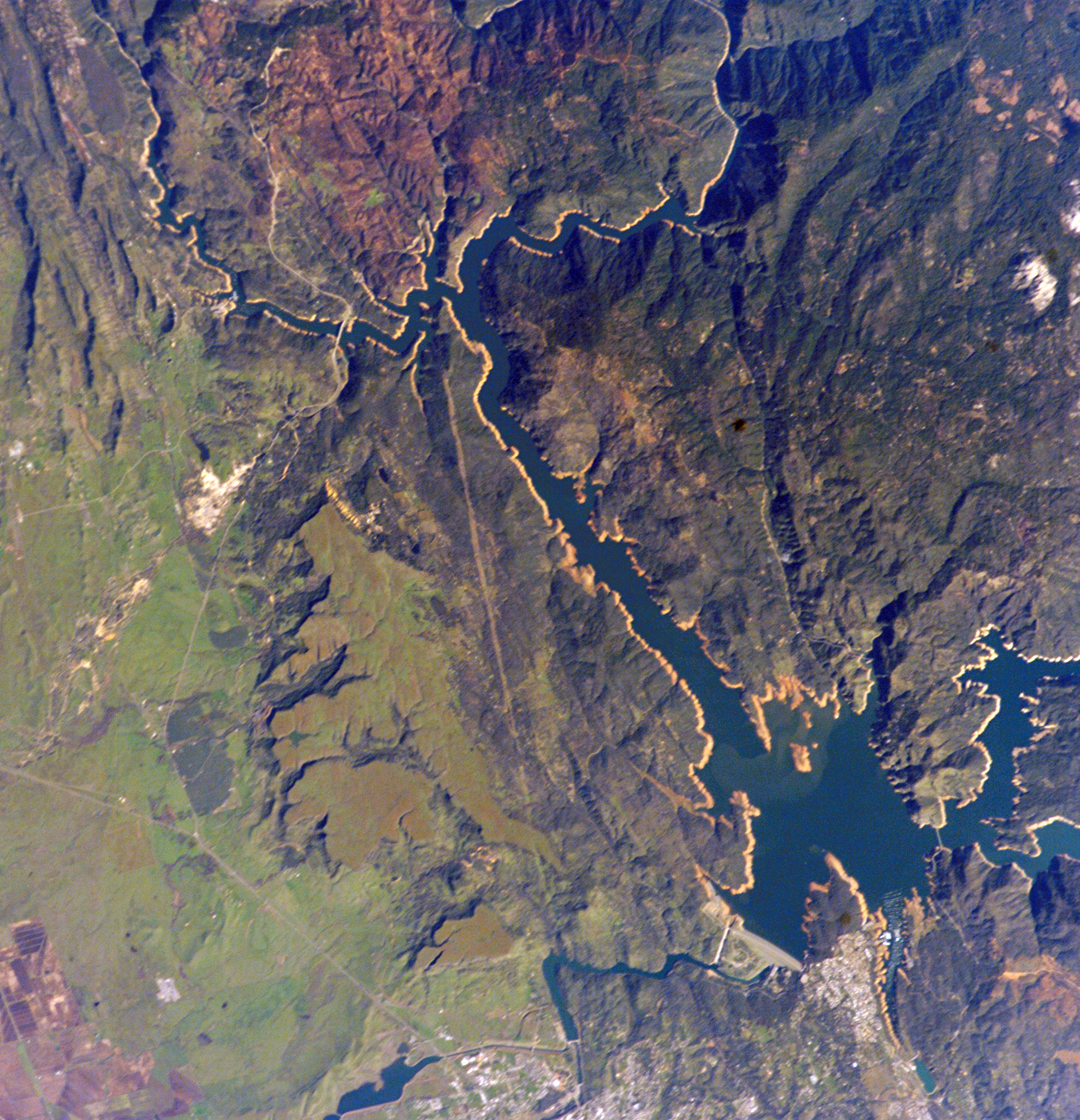 Photograph of Lake Oroville taken from the International Space Station